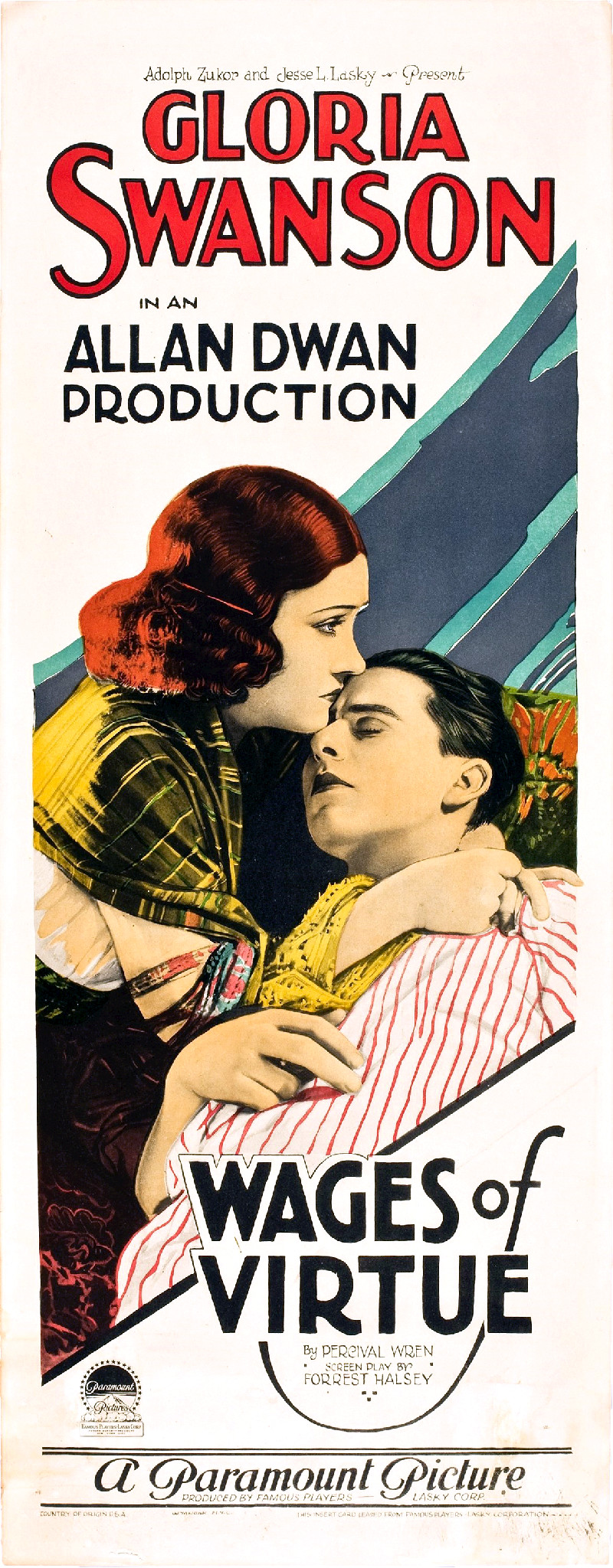 Poster for the 1924 film Wages of Virtue. There are no copyright marks on the item. At bottom is Country of origin USA, Wyanoak, NYC--they printed the poster--and This insert card leased from Famous Players Lasky Corp.